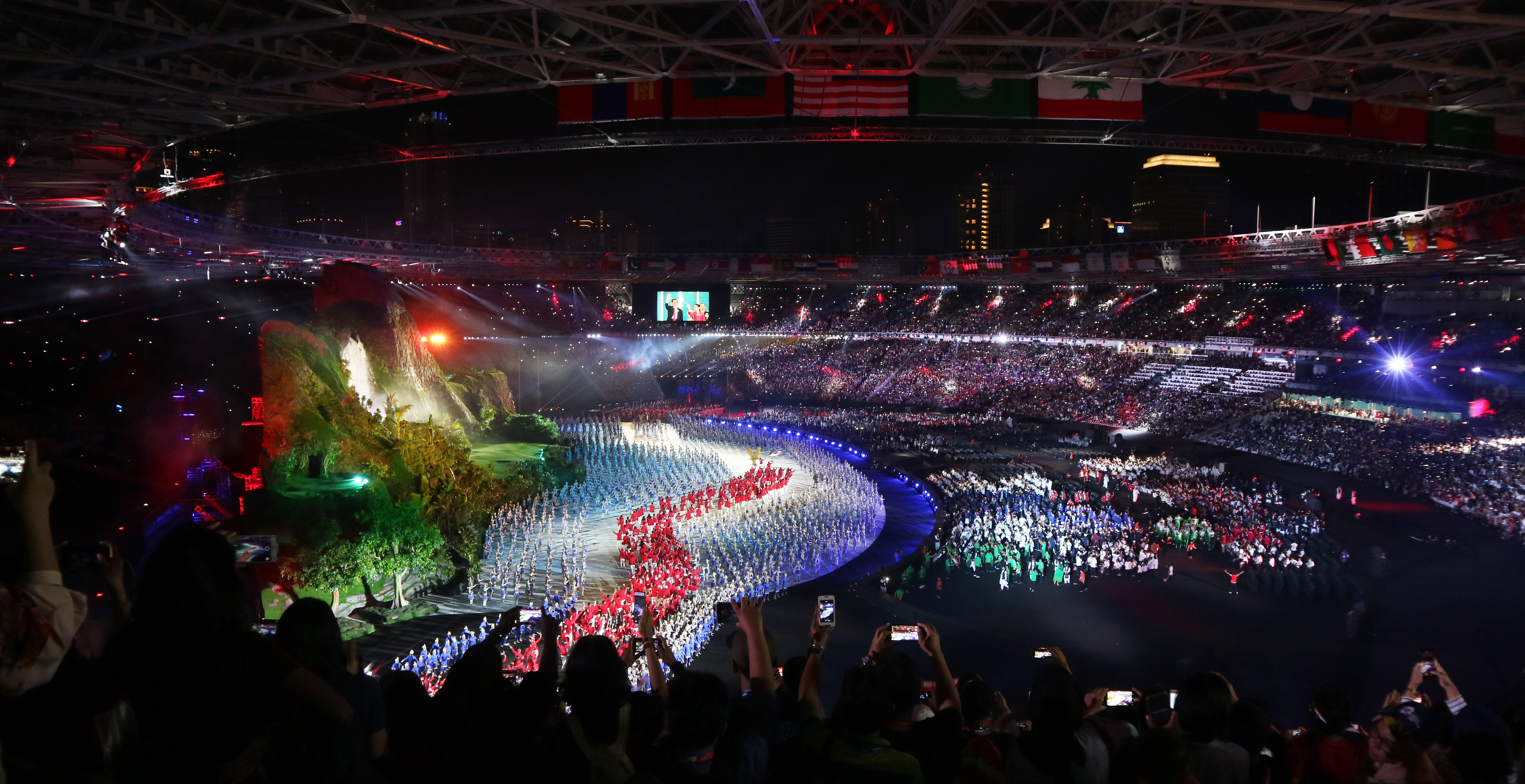 The host, Indonesian athletes marching in the opening ceremony of Asian Games 2018, Saturday, 18-8-18 or 18 August 2018, Gelora Bung Karno Stadium, Jakarta, Indonesia.